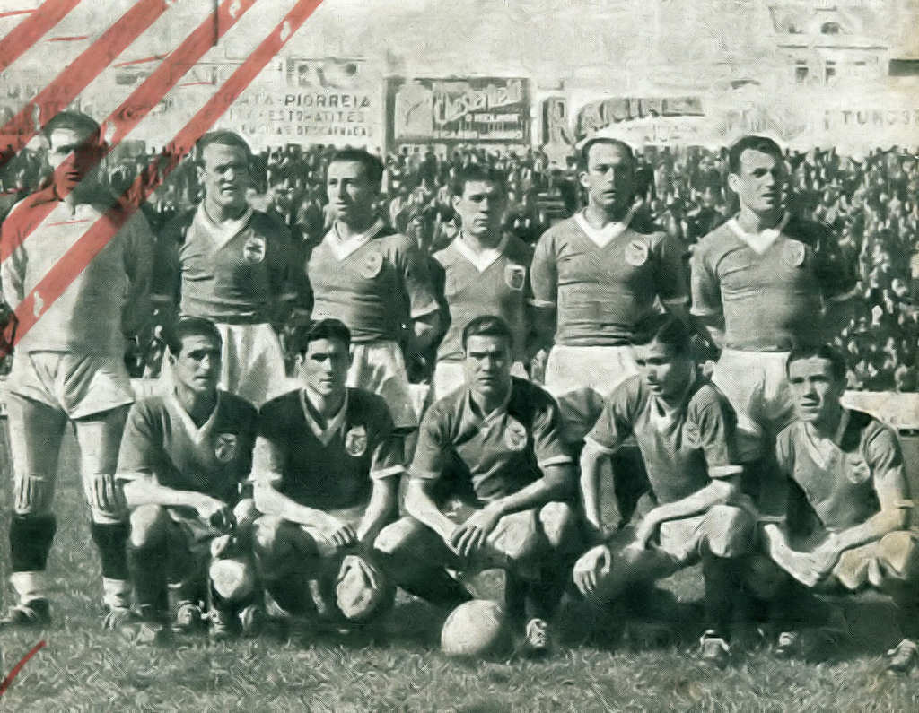 Sport Lisboa e Elvas 1945-1946 1º esquerda fila baixo